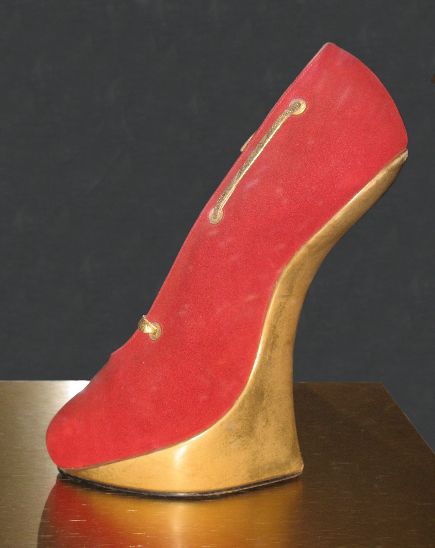 Shoe by Andre Perugia